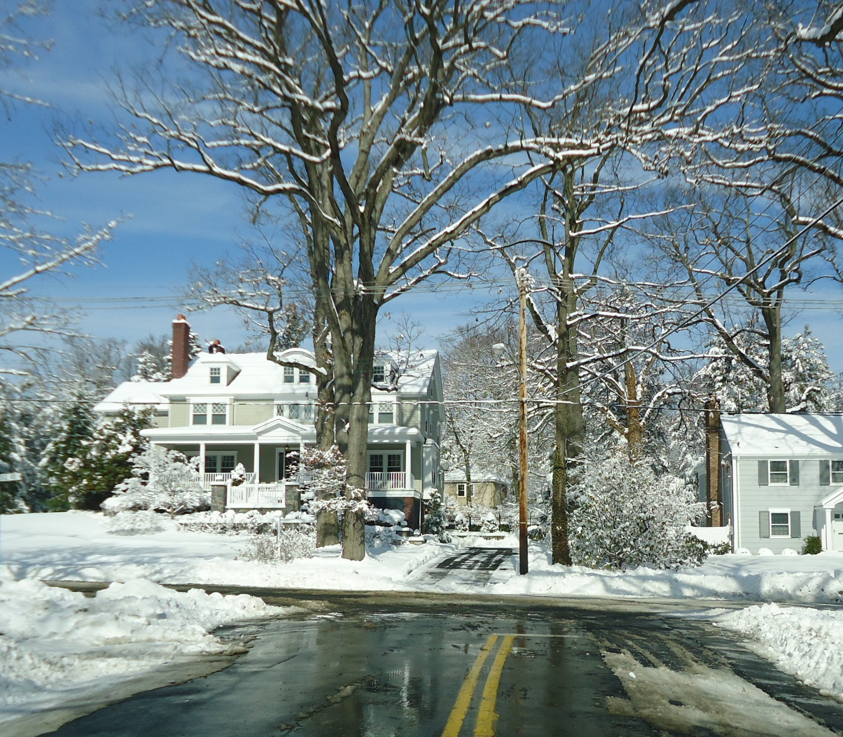 Winter scene in Summit, New Jersey. Houses, street.